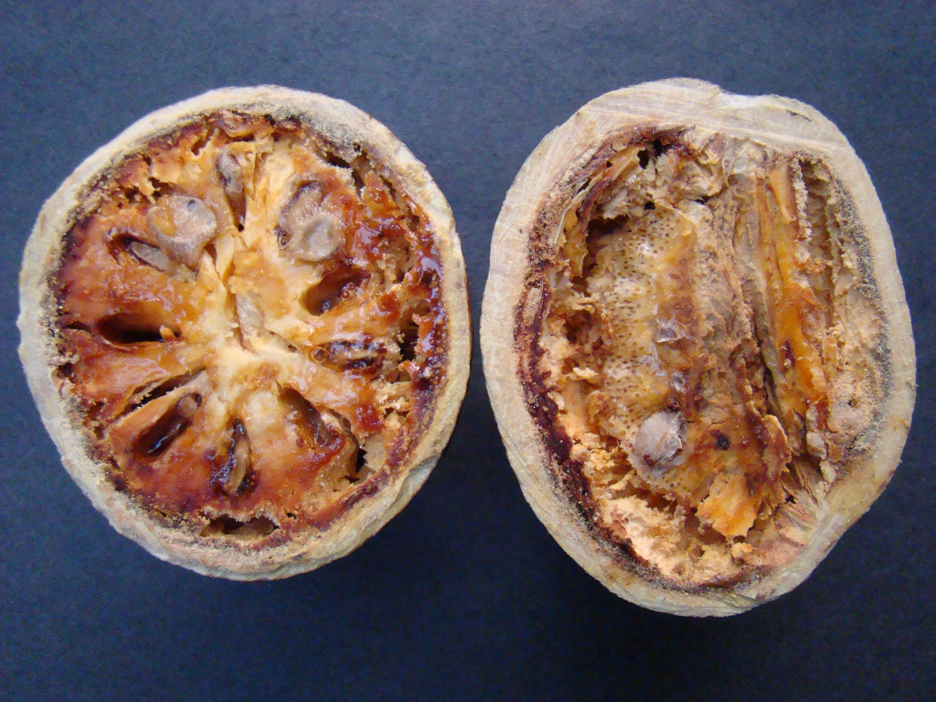 2 halves, a horizontally cut section (left) is shown with a vertically cut section (right) from 2 Bael (Aegle marmelos / Rutaceae) fruits from Mounts Botanical garden, West Palm Beach, Florida.